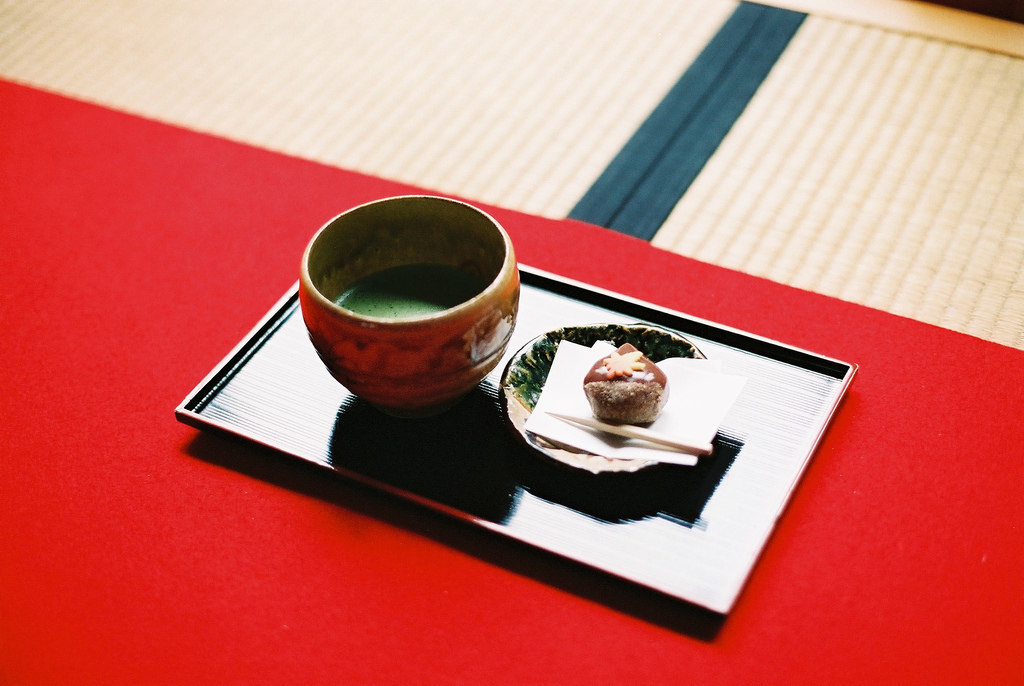 Ceremonial Tea in Japan